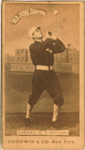 Billy Sunday, C.F., Chicago White Stockings, c. 1887. Goodwin & Co. tobacco baseball card